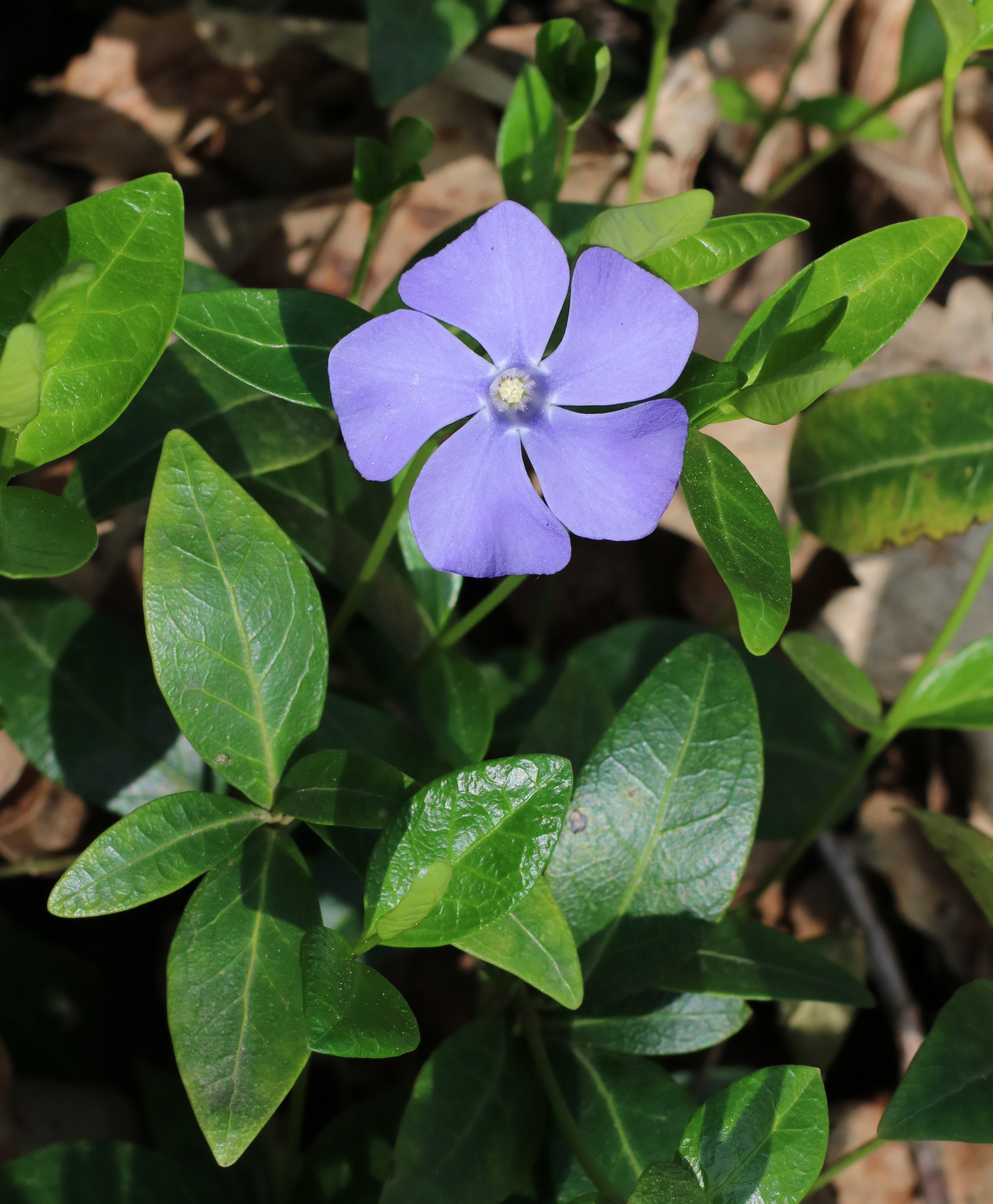 Lesser periwinkle (Vinca minor). Ukraine.